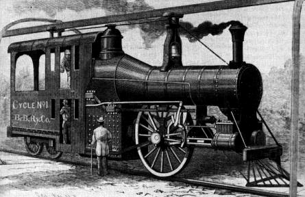 Boynton Bicycle Railroad, Brooklyn 1890-1892